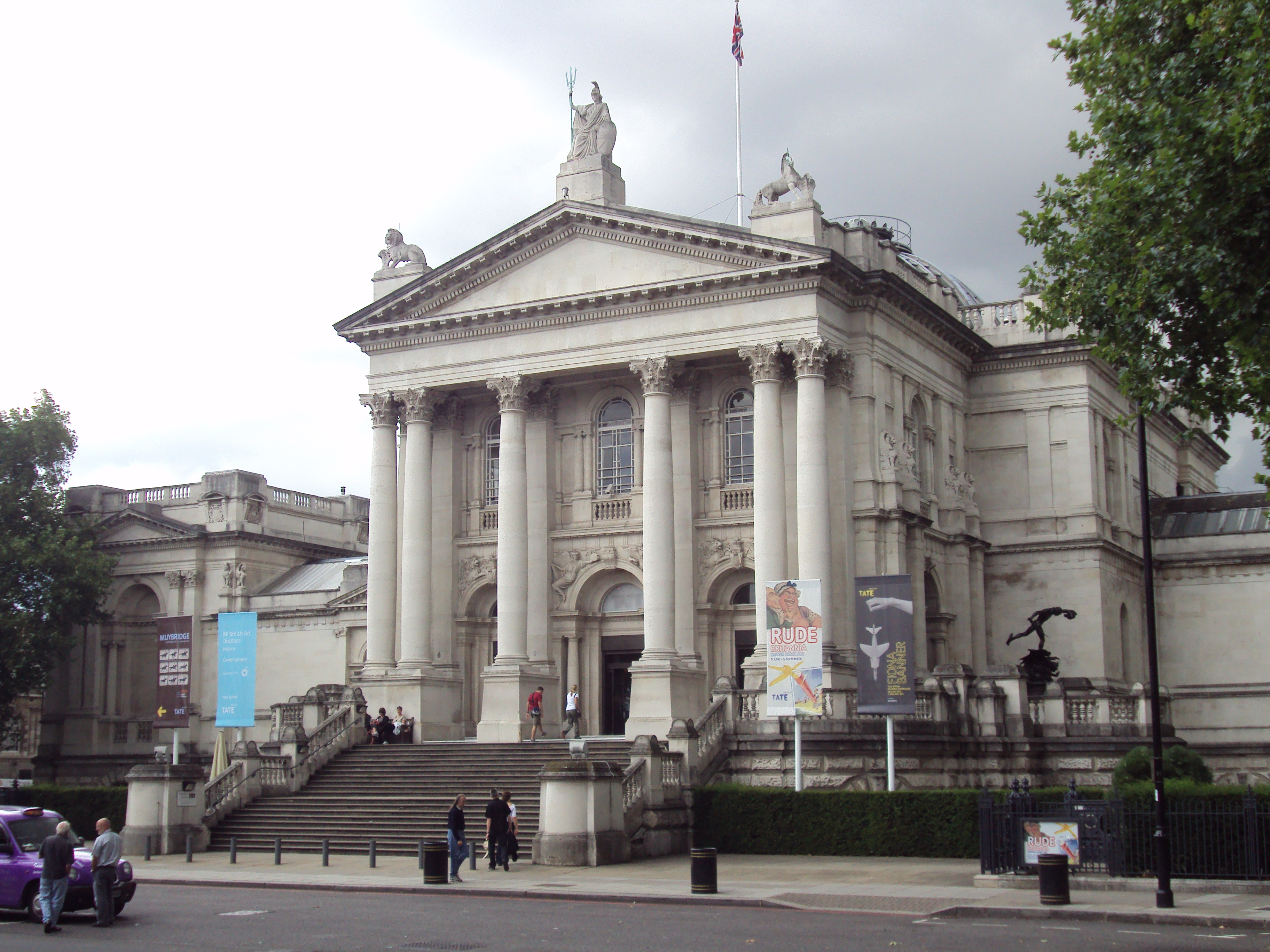 The Tate Britain Art Gallery on Millbank, London.